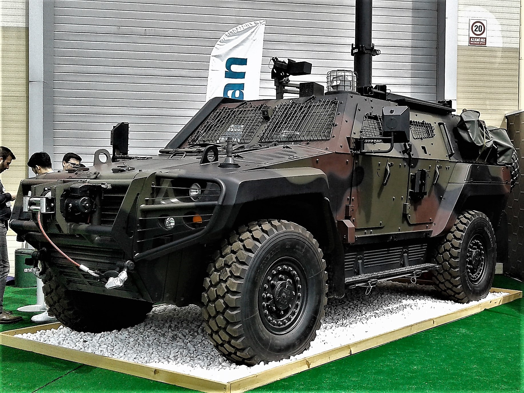 Armored wheeled personnel carrier Cobra II of Otokar at the IDEF 2019 in Istanbul, Turkey.